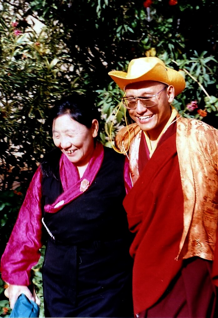 His Holiness Gyalwang Drukpa and his Mother, Alice Springs, Australia.